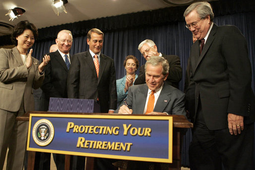 President George W. Bush signs into law H.R. 4, the Pension Protection Act of 2006, Thursday, Aug. 17, 2006. Joining him onstage in the Eisenhower Executive Office Building are, from left: Secretary of Labor Elaine Chao; Rep. Buck McKeon of California; Rep. John Boehner of Ohio; Senator Blanche Lincoln, D-Ark.; Senator Michael Enzi, R-Wyo., and Rep. Bill Thomas of California.